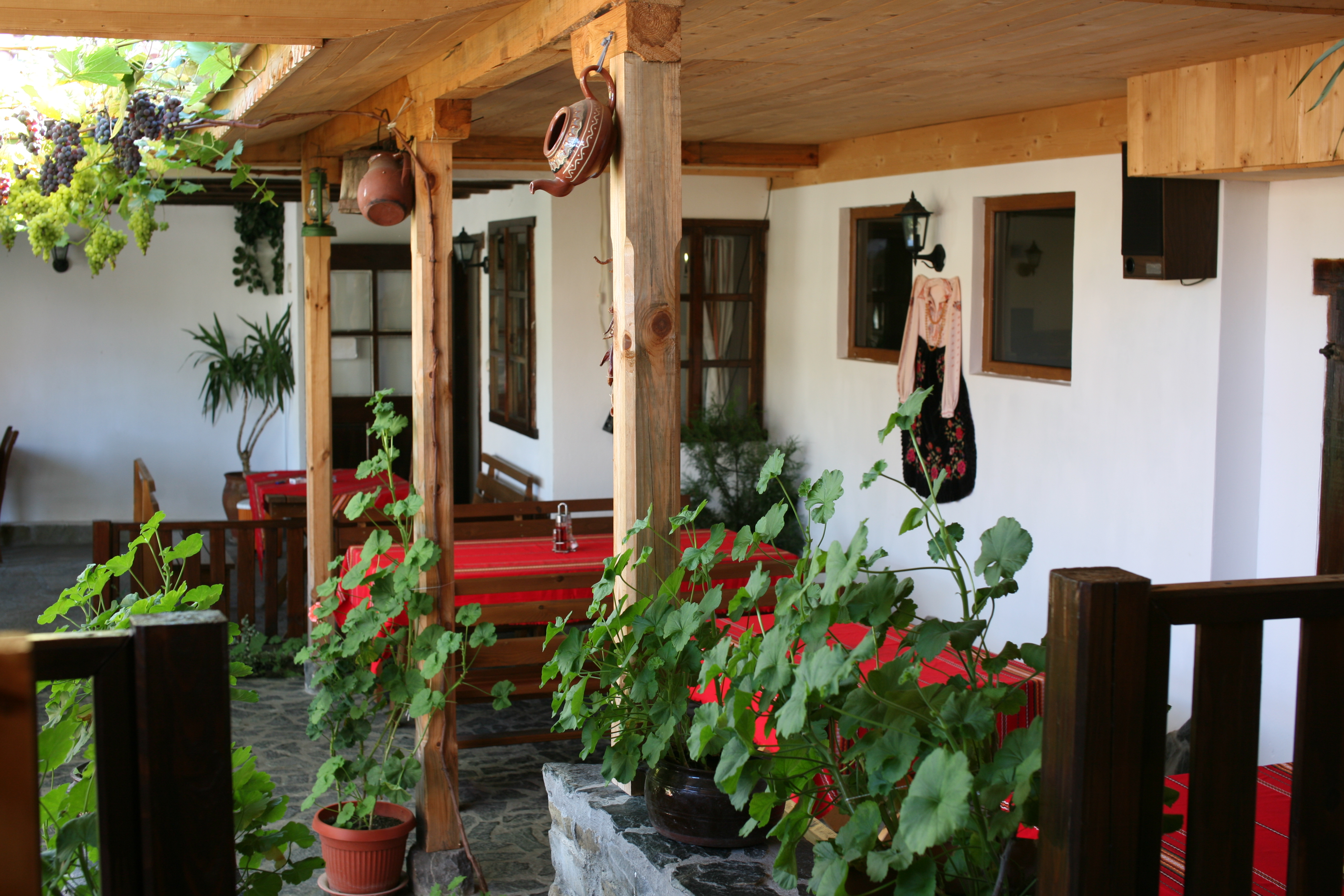 House in Oreshak, Lovech District, Bulgaria